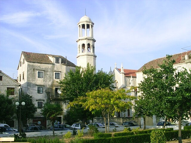 Town of Kaštel Novi, Croatia